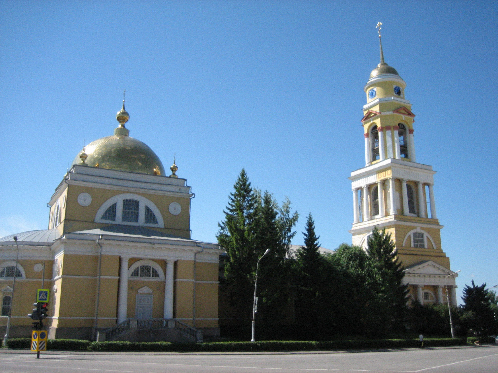 Lipezk Cathedral